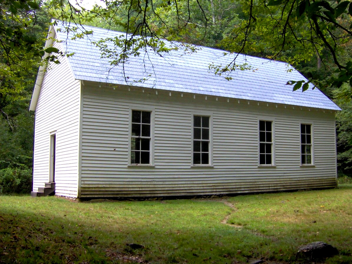 Beech Grove School in Big Cataloochee, located in the Great Smoky Mountains of North Carolina. The school was built in 1907 after its predecessor burned.